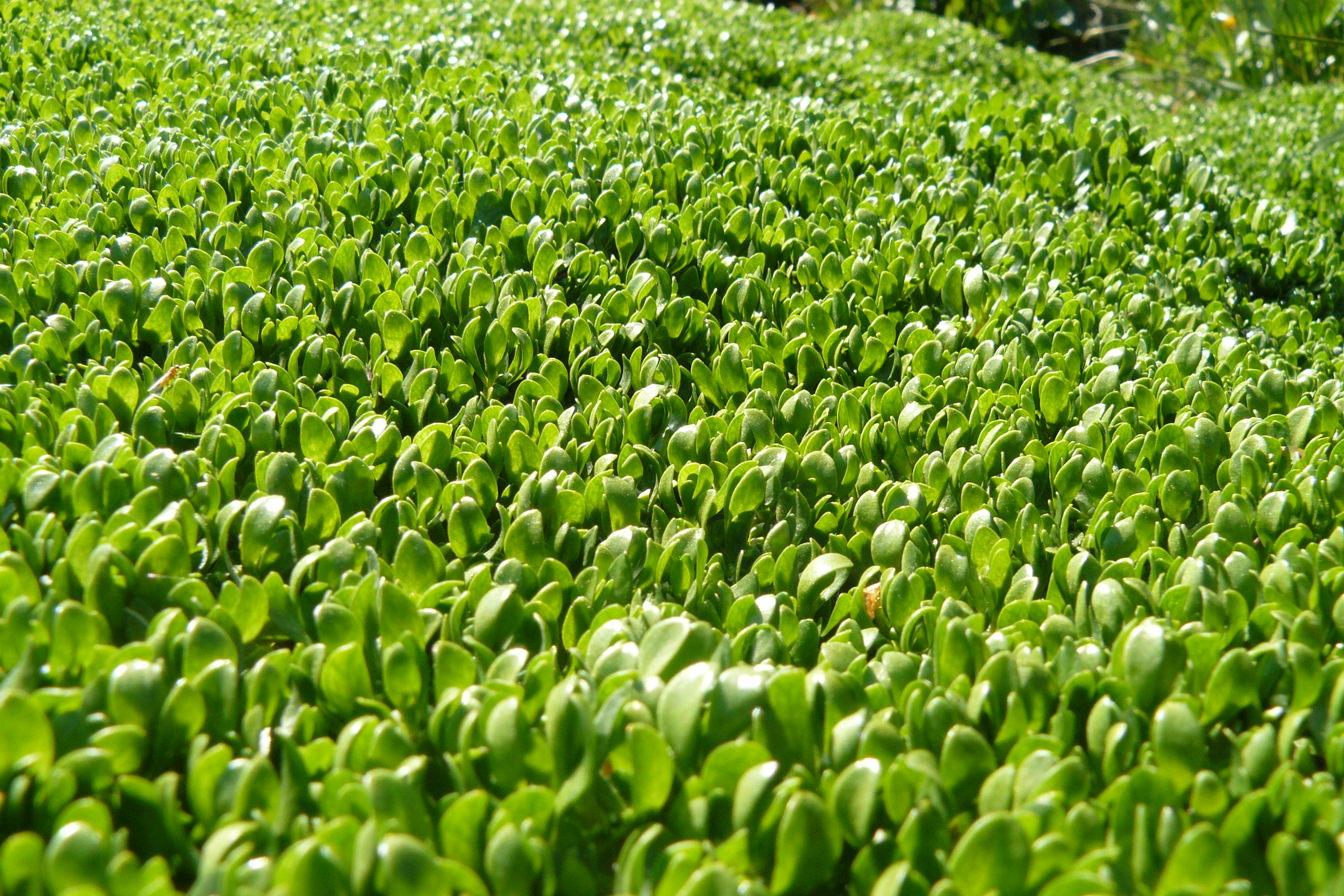 Montia fontana subsp. fontana, Mezenc, 43, France